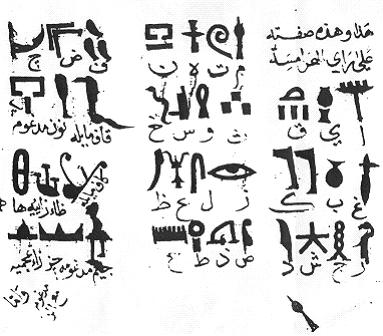 Ibn Wahshiyya's 985 CE translation of the Ancient Egyptian hieroglyph alphabet